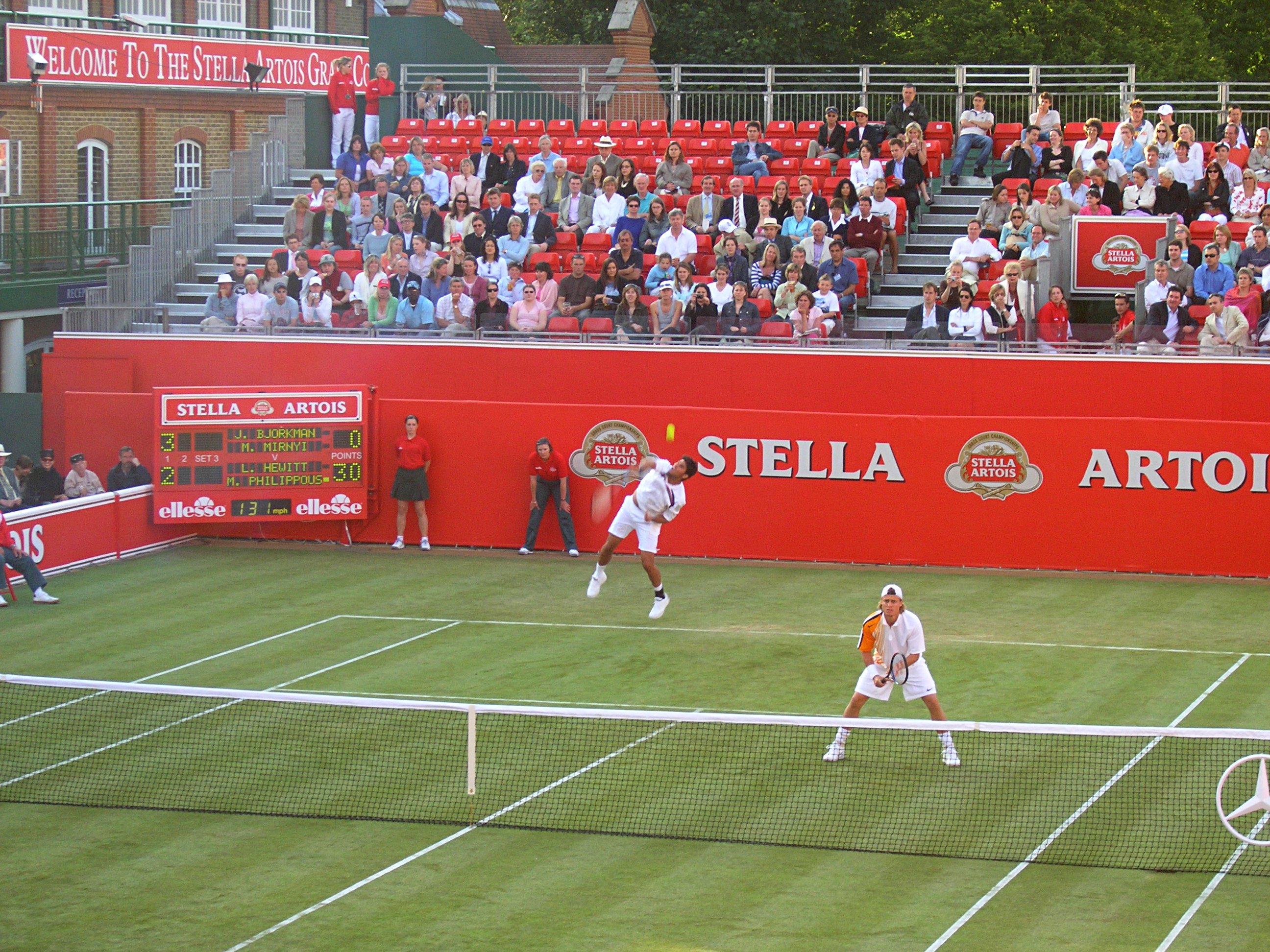 Lleyton Hewitt and Mark Philippoussis at the en:2005 Queen's Club Championships Shermozle 21:45, Jun 8, 2005 (UTC)